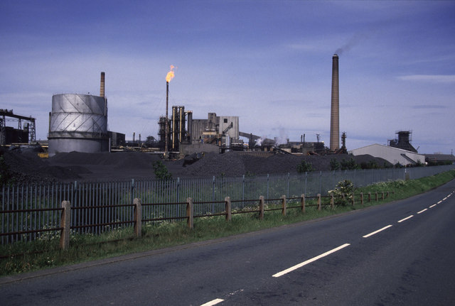 Monkton Coking Works, Hebburn A distant memory.